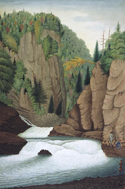 A View of the Lower Part of the Falls of St. Anne near Quebec